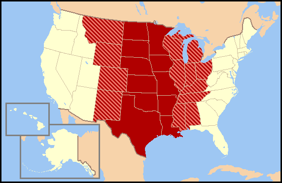 The maps series from the English wikipedia's Wikiproject: United States regions. The maps attempt to show, the various definitions of the regions without endorsing one over another.